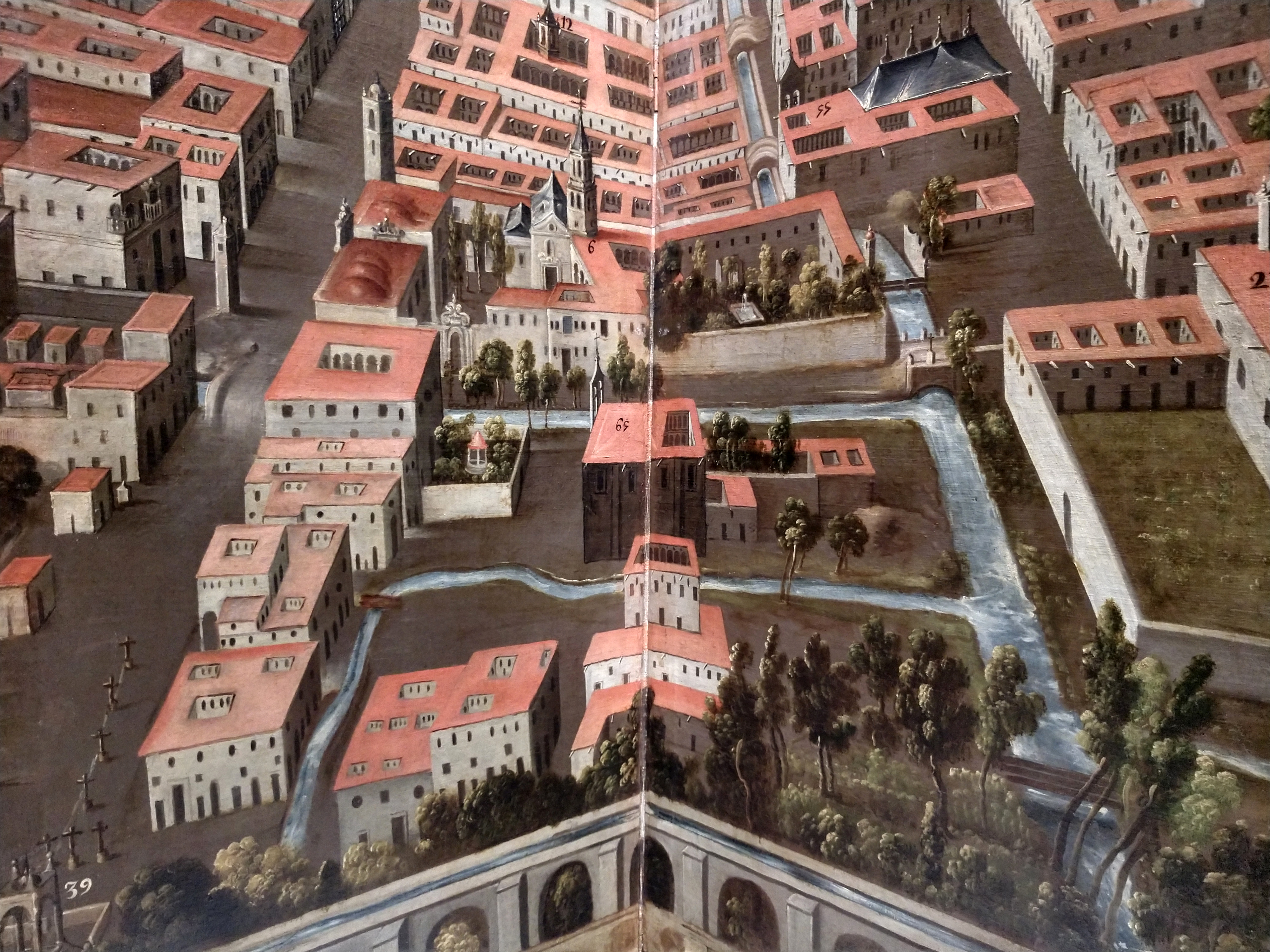 Unknown author. Folding screen with the Conquest of Mexico, second half of the seventeenth century oil on canvas Particular collection